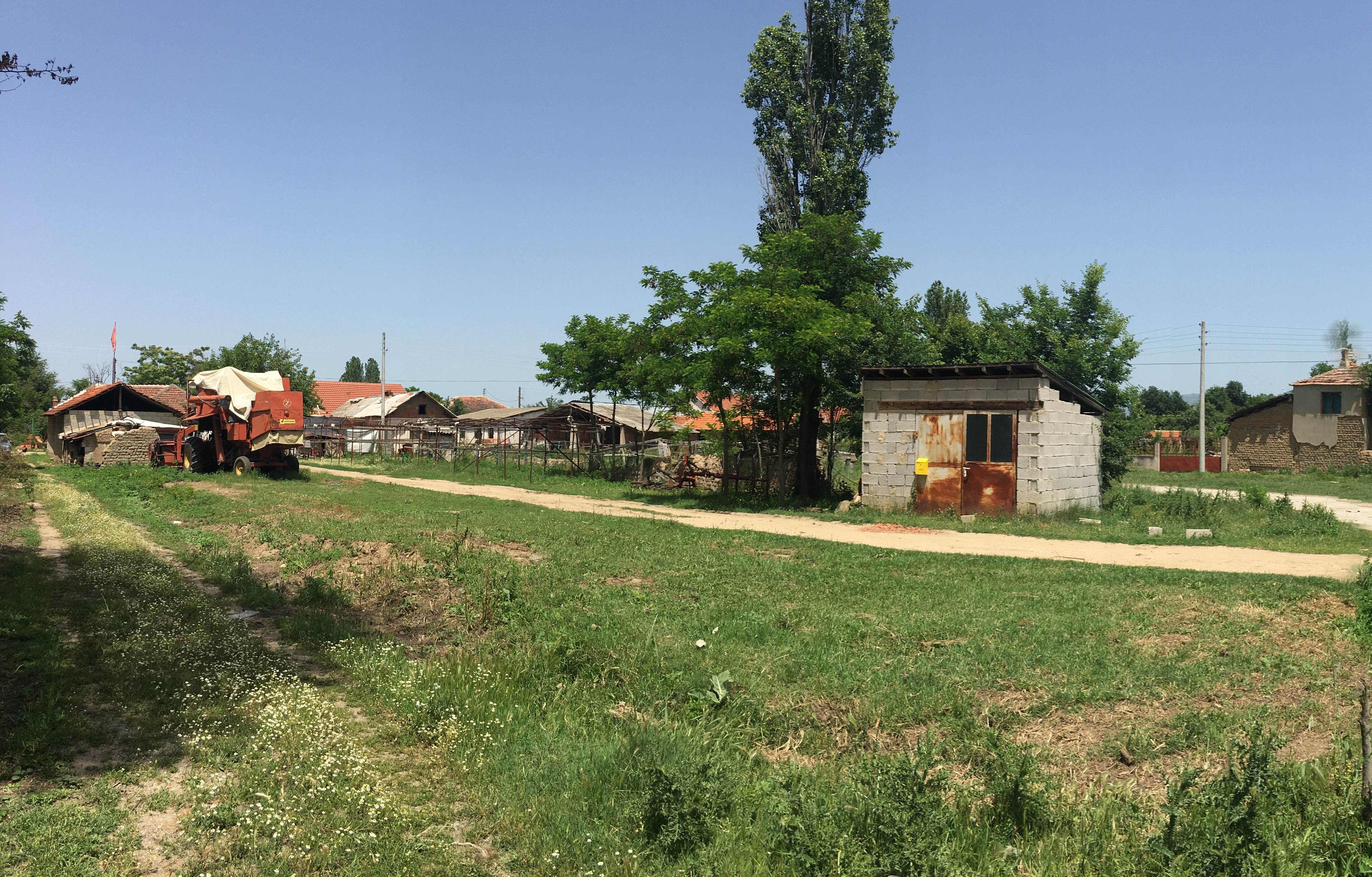 Houses in the village of Klepač